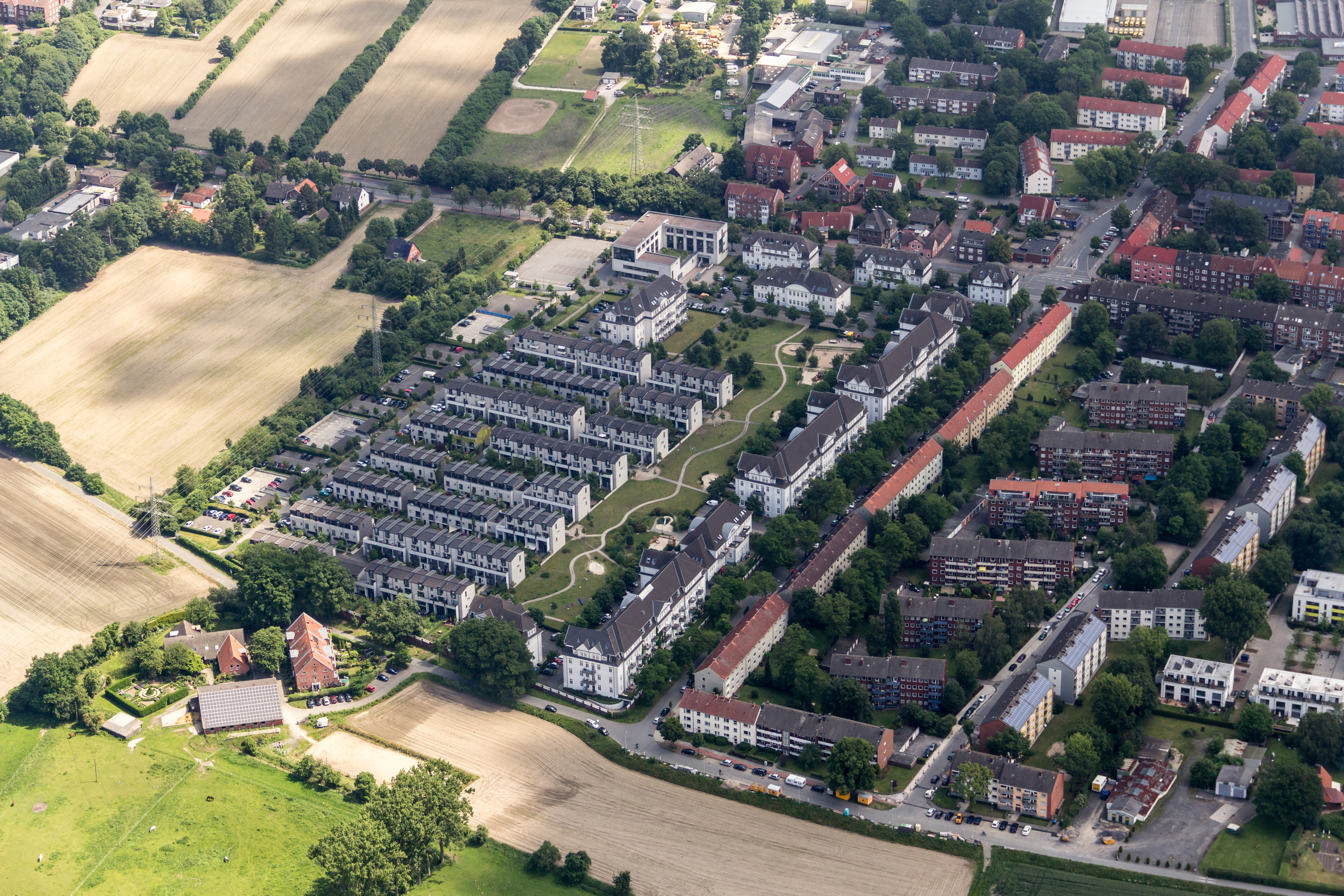 Residential area “Fresnostraße”, Münster, North Rhine-Westphalia, Germany